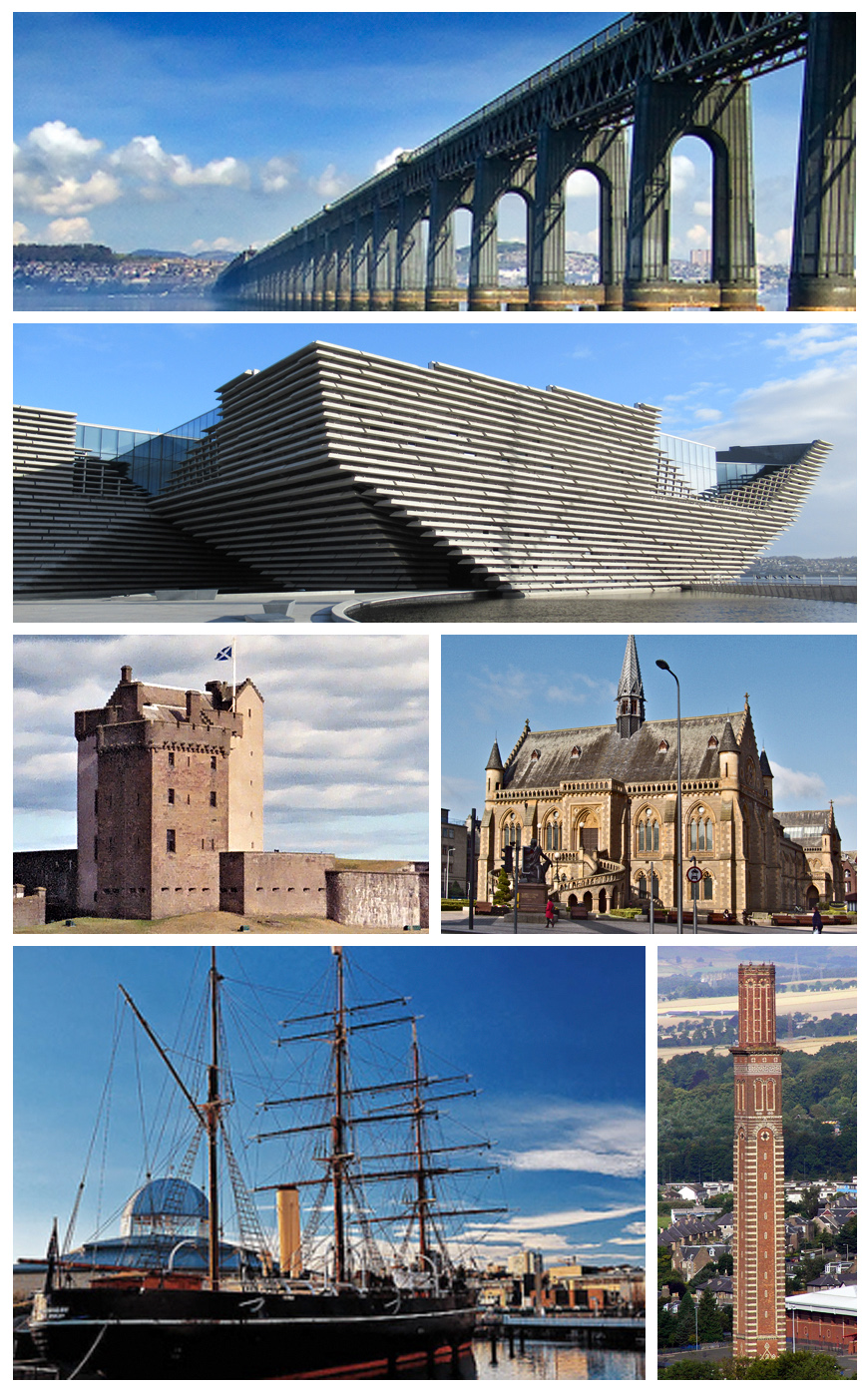 Collage of images of Dundee. (Created to replace File:Dundee Picture Collage.jpg; see notes below).